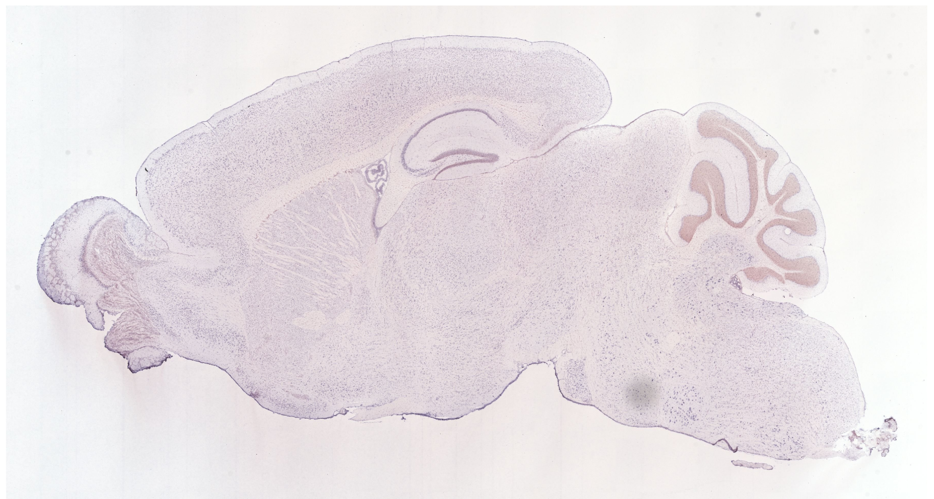 RNA expression of TMEM128 in a mouse brain as determined using in-situ hybridization